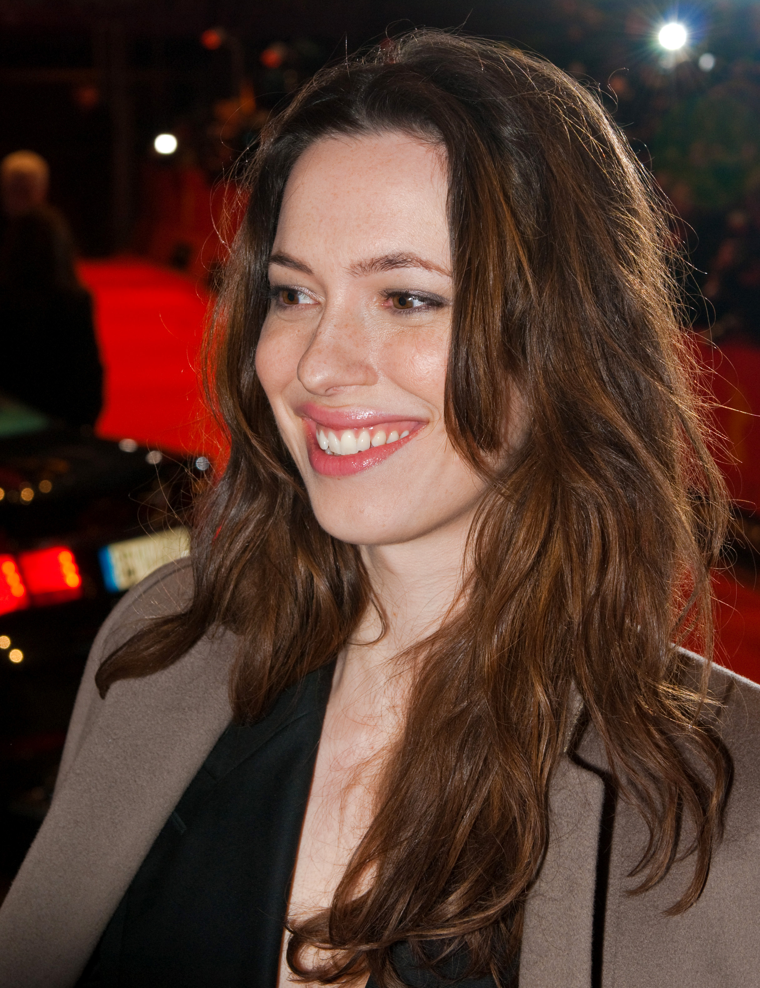 Actress Rebecca Hall arriving at the premiere of the movie Please Give at the 60th Berlin International Film Festival